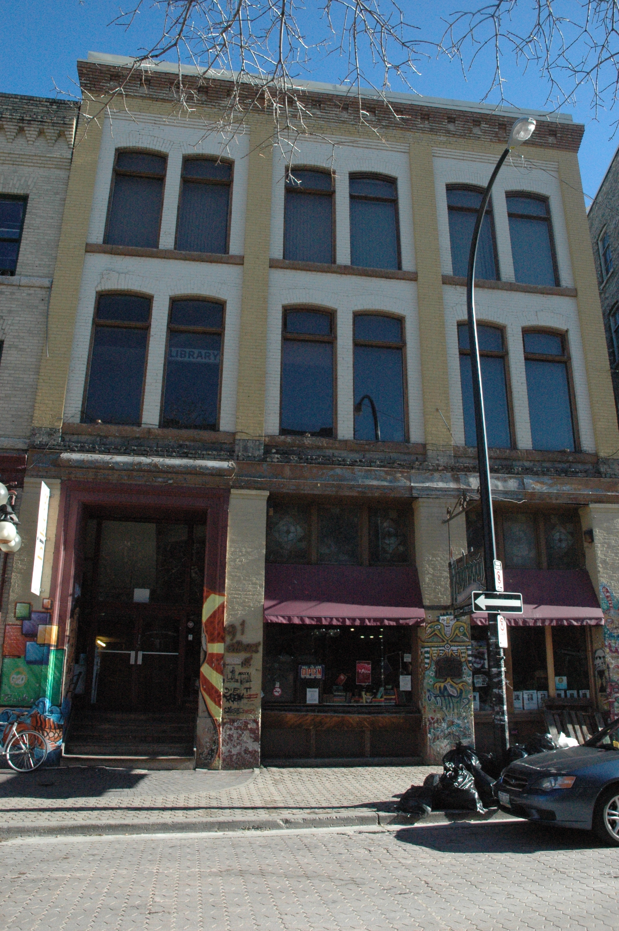 The Old Market Autonomous Zone in Winnipeg - Google Maps - Google Earth